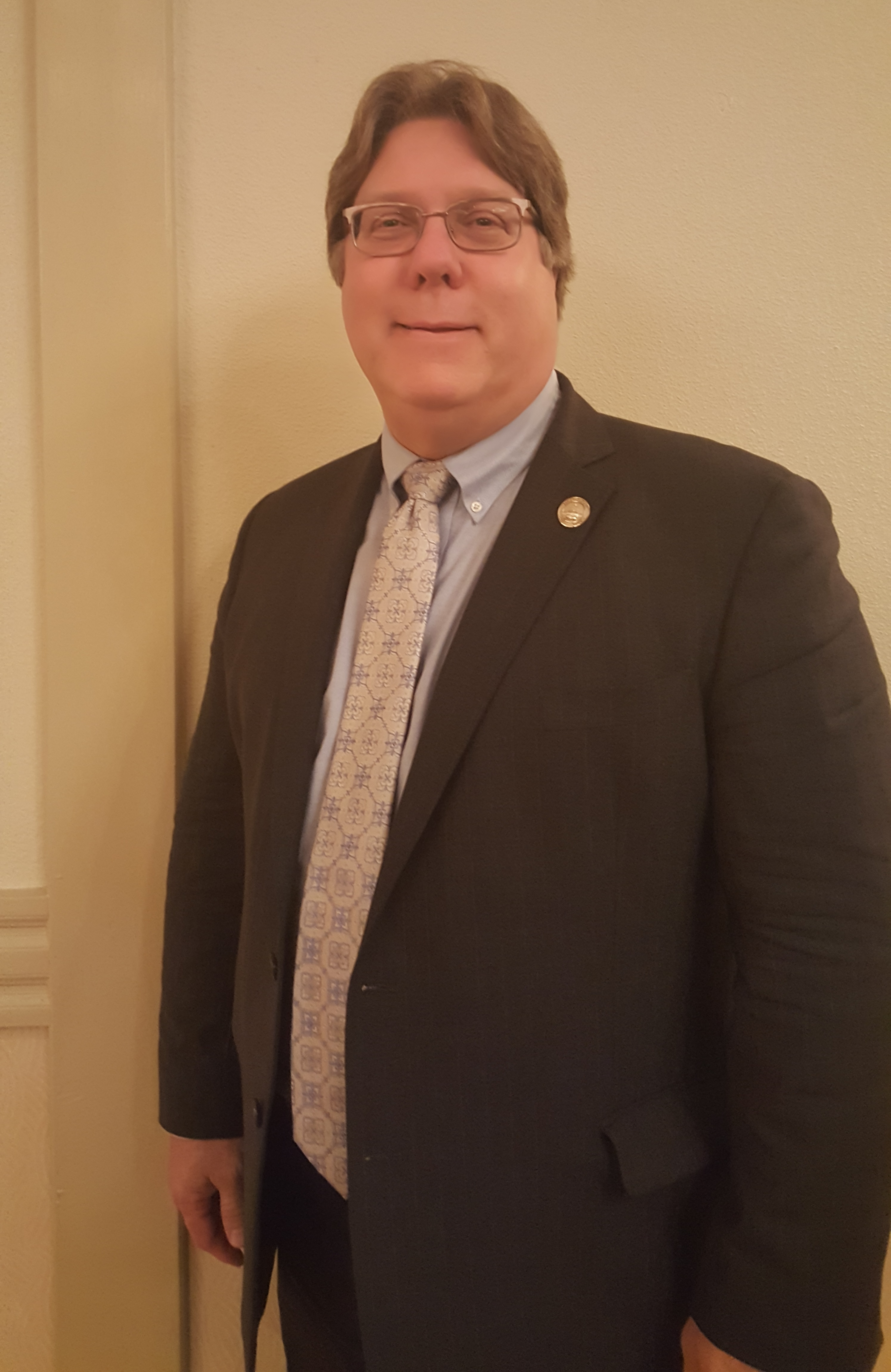 David Heather is a member of the executive board of the NRLCA